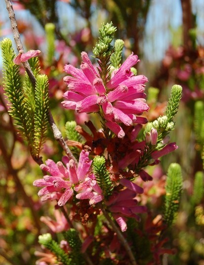 Erica verticillata. Extinct in the Wild. City of Cape Town.